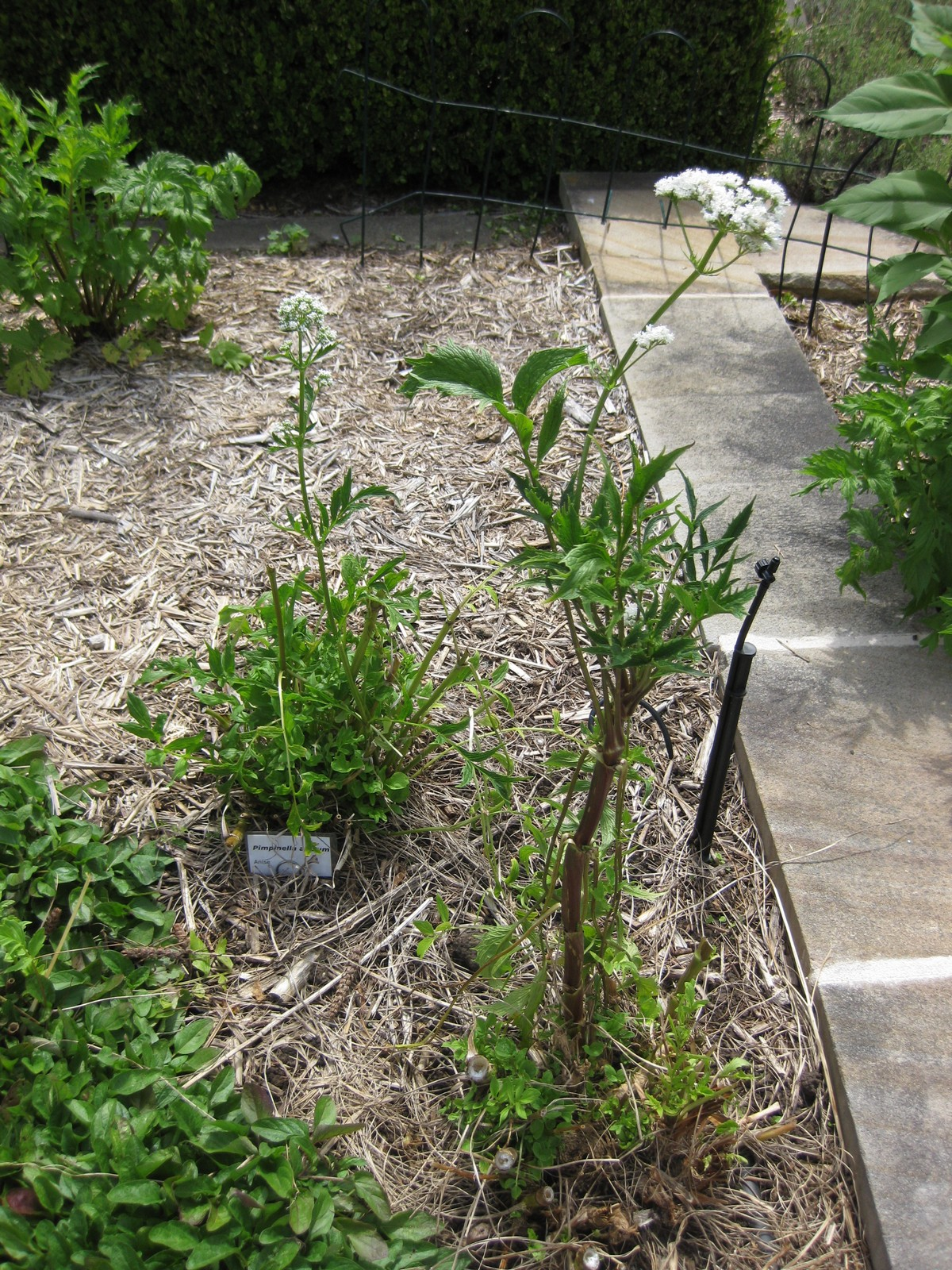 Photographed at the Royal Botanic Gardens Sydney (Australia) in January